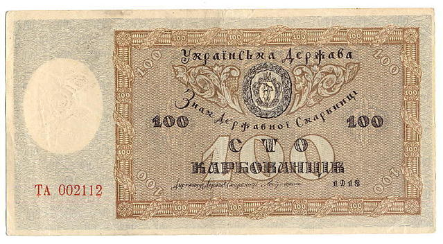 100 karbovanets the Ukrainian State. Avers